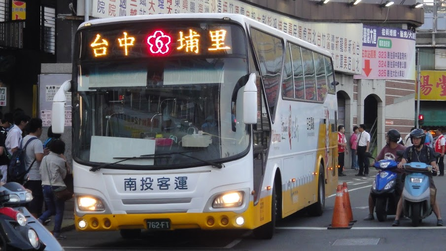 南投客運 762-FT